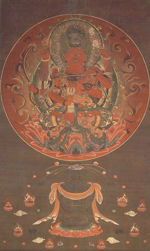 Aizen Myōō, Hōzanji, Ikoma, Nara, Japan